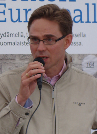 Finnish government minister Jyrki Katainen in Espoonlahti